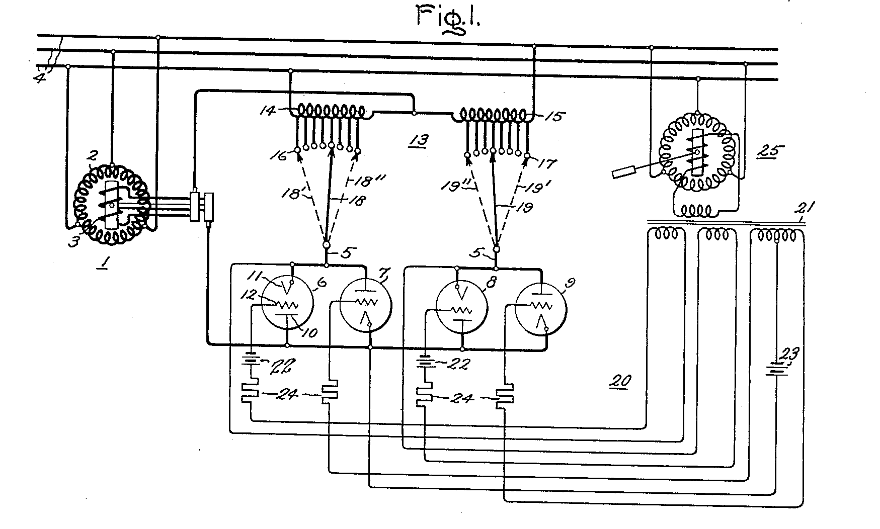 Electric motor control system Figure 1: 1. induction motor 2. stator winding 3. induced or rotor winding 4. circuit 5. variable voltage alternating current circuit 6. - 9. electric valves 12. control member 13. autotransformer 14. winding (of autotransformer 13.) 15. winding (of autotransformer 13.) 16. contact 17. contact 18. Controllable or adjustable contact-making mechanisms 19. Controllable or adjustable contact-making mechanisms 20. excitation system 22. batteries 23. batteries 24. current limiting resistances 25. rotary phase shifting device Figure 2: 26. induction motor 27. inducing or stator winding 28. a quarter phase rotor winding 29. - 36. Electric valves 37. anode 38. cathode 39. controll member Figure 3: 40. induction motor 41. three-phase inducing or stator winding 42. three-phase induced or rotor winding 44. circuit 45-62. Electric valve 63. anode 64. cathode 69. field or excitation winding